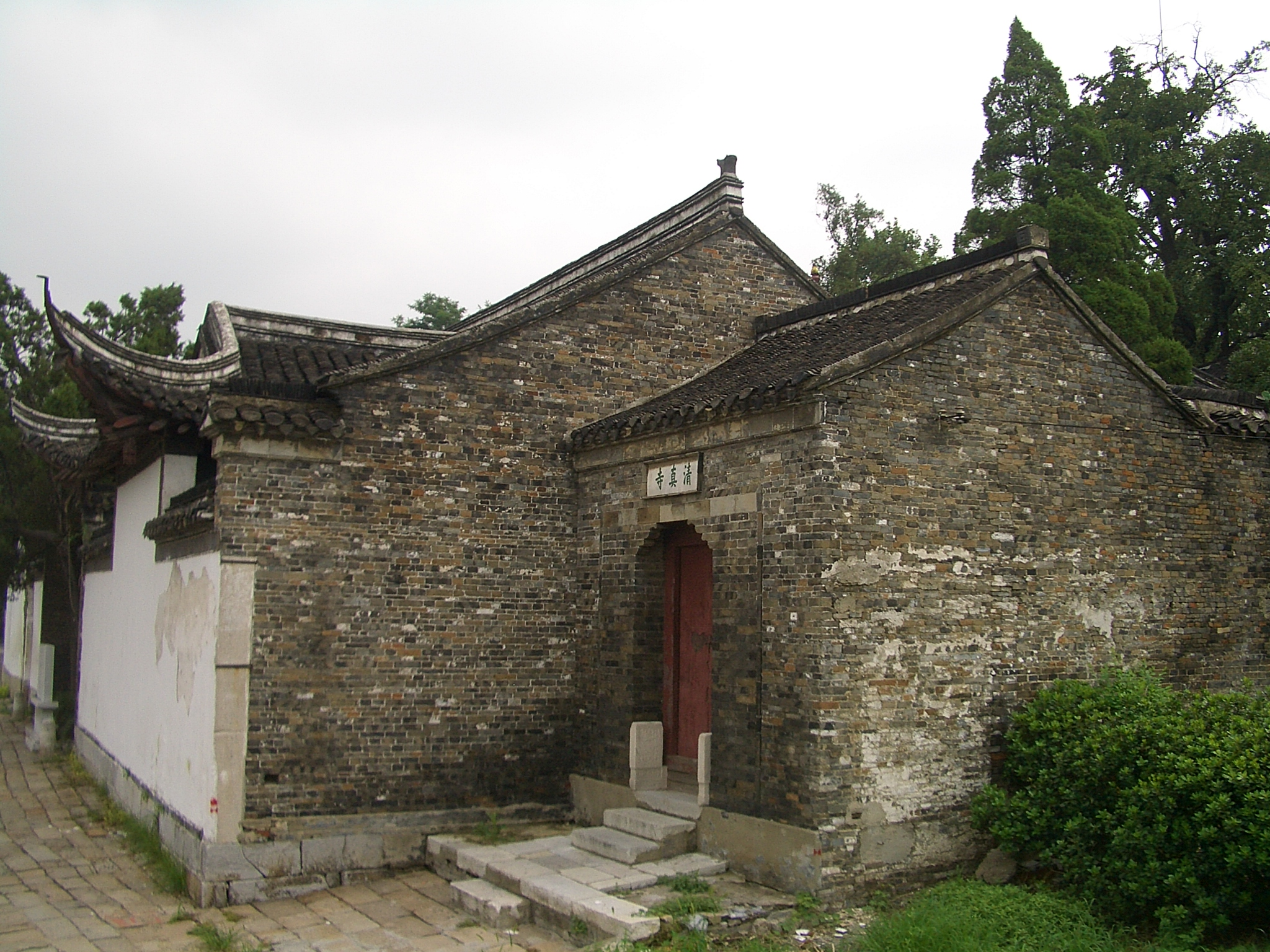 The Tomb of Puhaddin, at the Yangzhou Mosque.